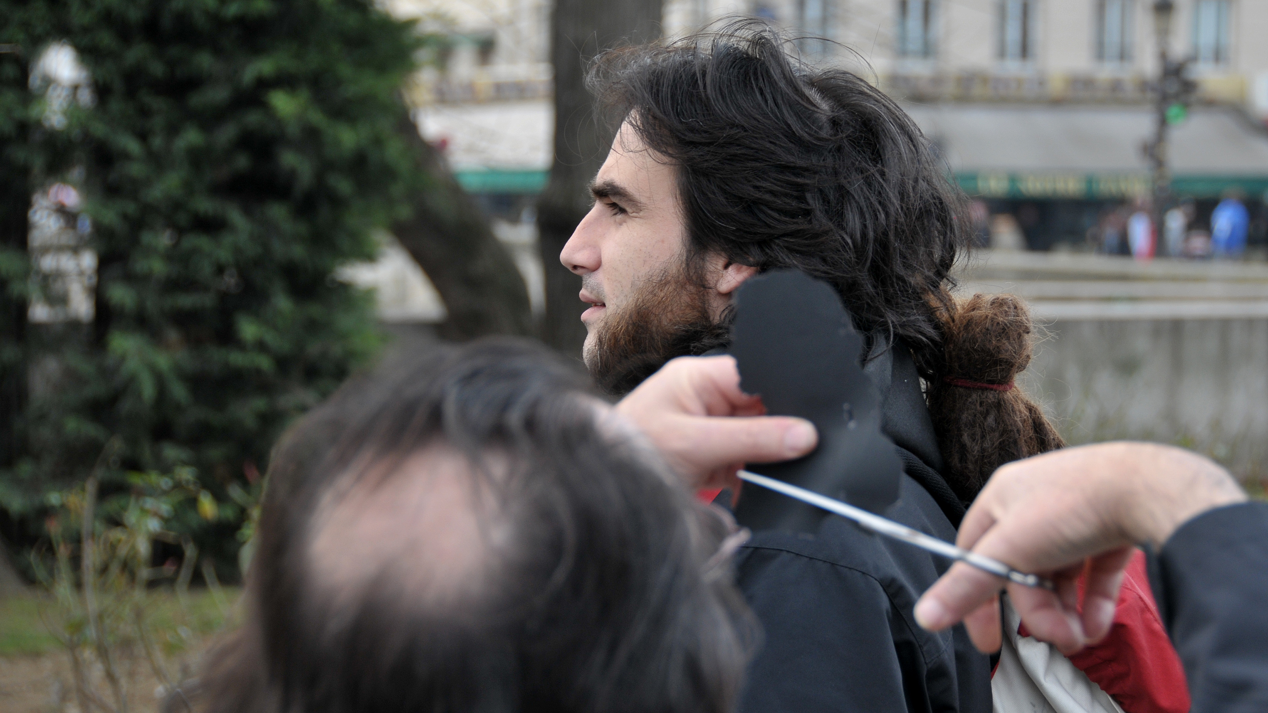 on the plaza of Notre Dame. they cut this portrait cardboard by aligning your facial features and cutting. pretty cool. The artist is Alex Silhouettiste. was in Europe last week. been back for 5 days 4 of them been down because of the damn flu. it's time to post some pics.